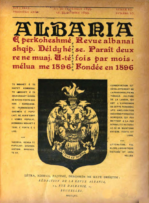 October 1899 issue of the magazine Albania, the most important Albanian periodical of the early 20th century